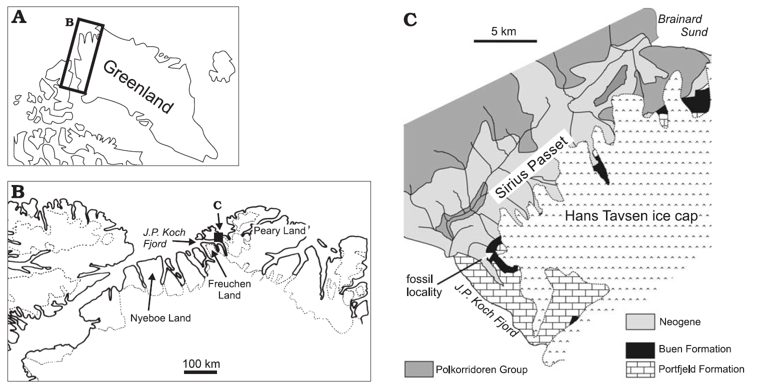 Geologic map of Sirius Passet, northern Greenland showing Buen Formation Portfjeld Formation Polkorridoren Group